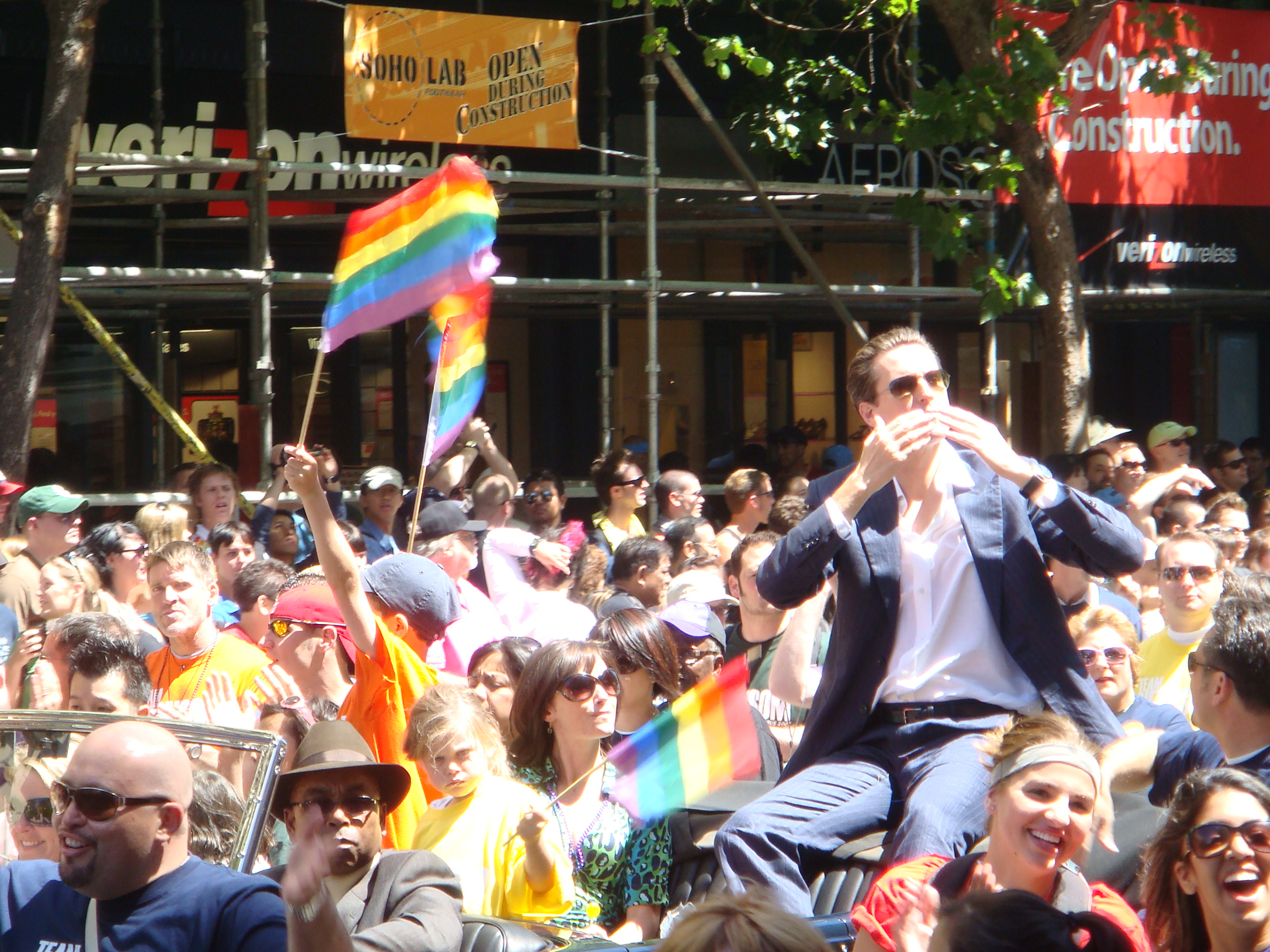 San Francisco Mayor Gavin Newsom in the 2007 gay pride parade